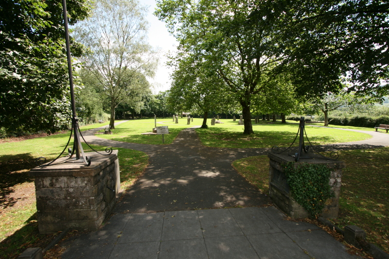 Entrance to Parc yr Orsedd, Ystradgynlais. Gorsedd circle in the background. Darren Wyn Rees at Aberdare Blog